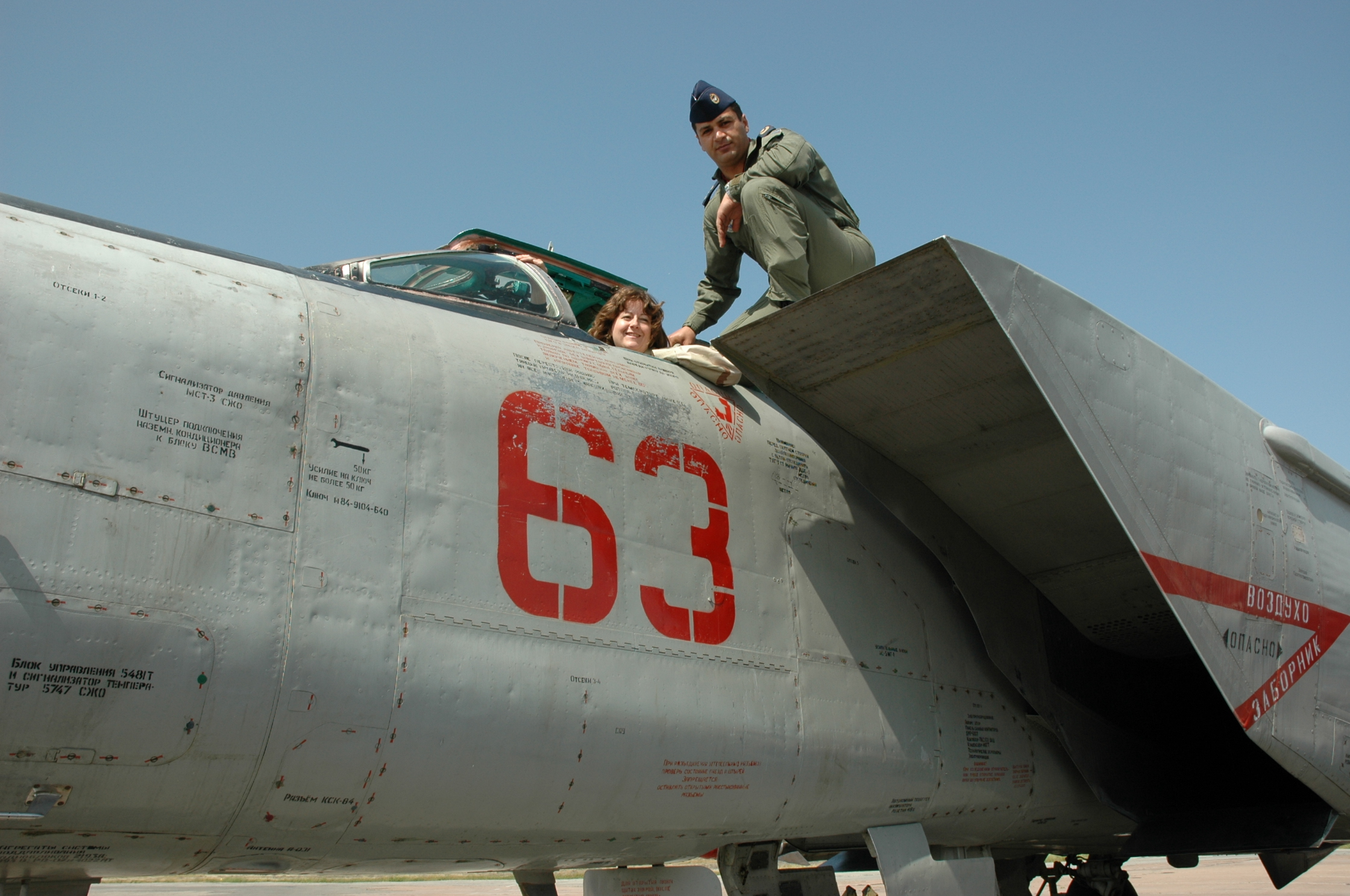 Col Theresa Meyer, Director, USAFE Intelligence Directorate, takes a seat in an Azerbaijani Air Force MiG-25 FOXBAT at Nasosnaya Air Base, Azerbaijan 18 May. During the visit to Baku, USAFE leadership toured the former Russian airfield and met with Azerbaijani senior leaders. The MiG-25 is a second generation high-speed interceptor and reconnaissance aircraft produced by Russia's Mikoyan-Gurevich design bureau and officially entered into service in 1973. It remains in limited service in Russia, Azerbaijan and several other nations.